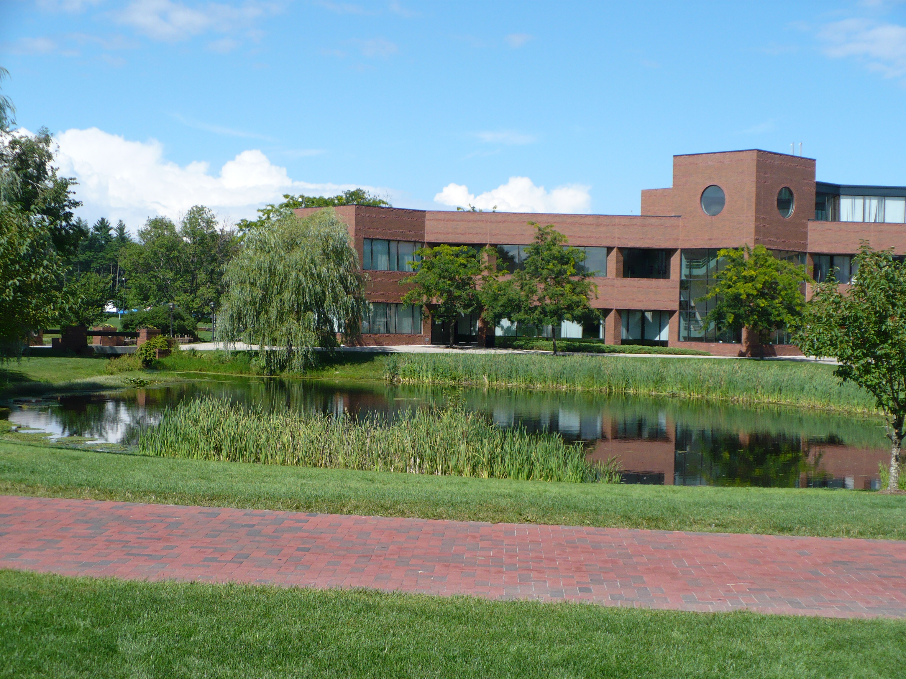 Bryant University's Bryant Center